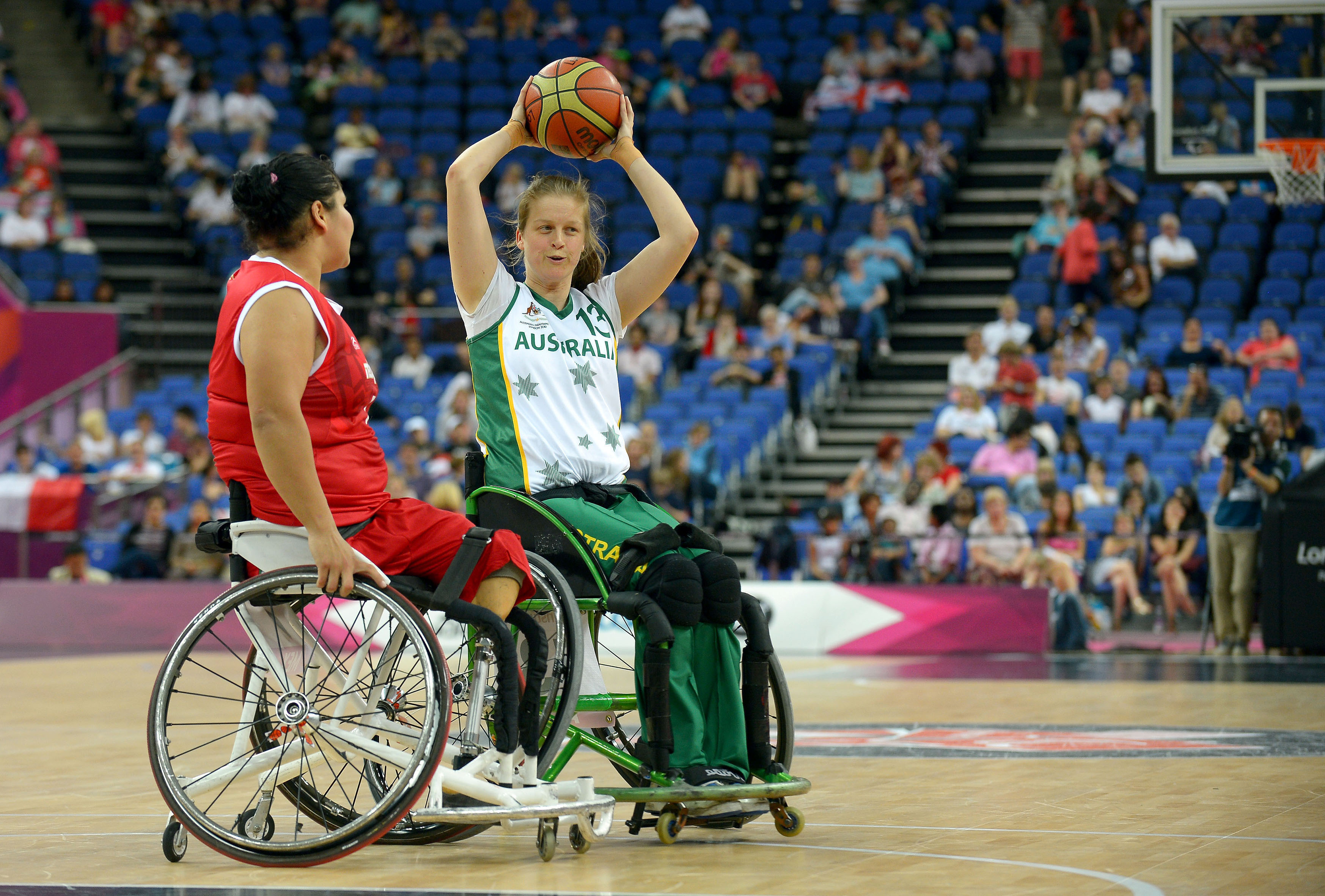 Photograph of Australian Paralympic team member Sarah Stewart at the 2012 Summer Paralympic Games in London